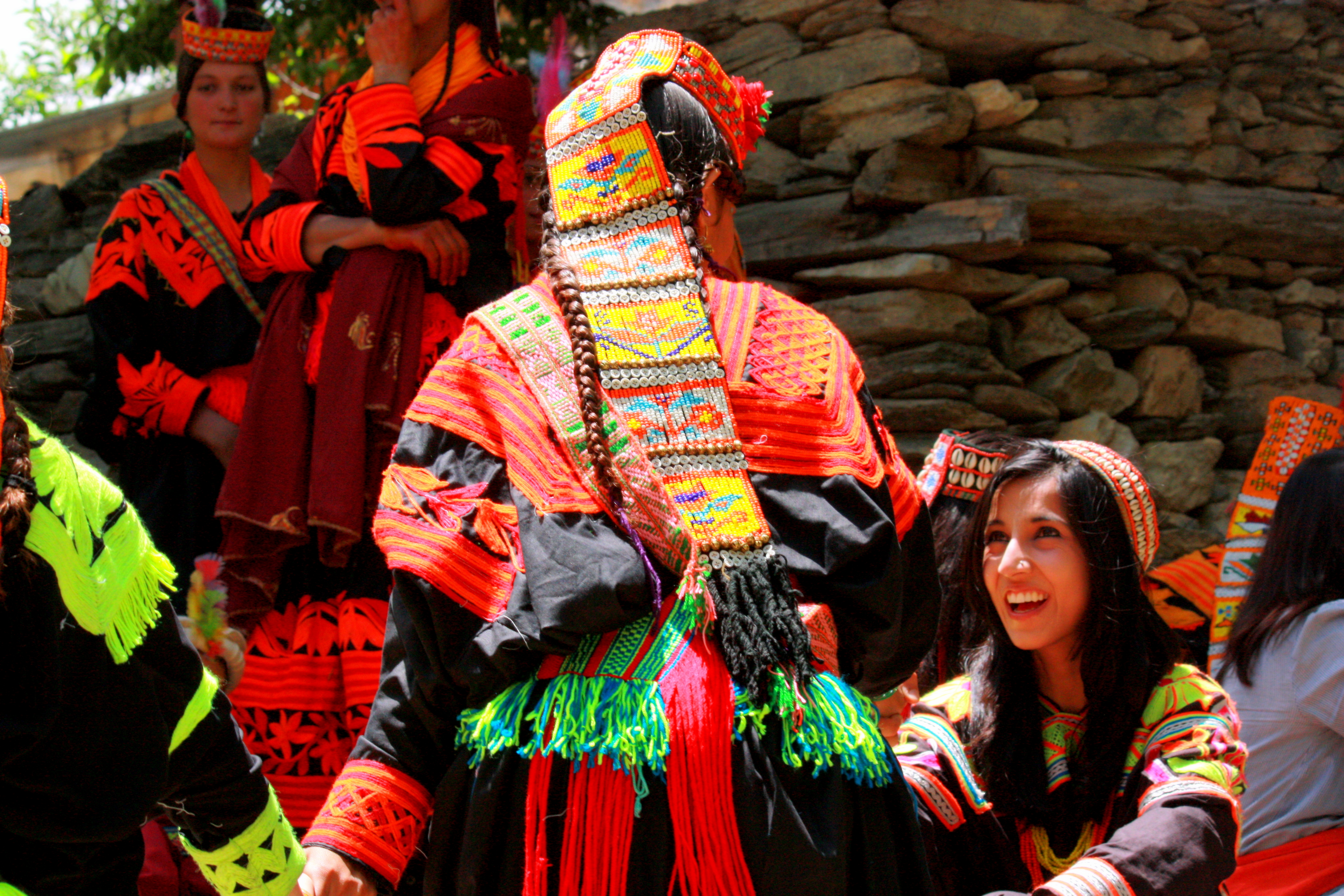 Traditional Kalash women's clothing including an elaborate headdress